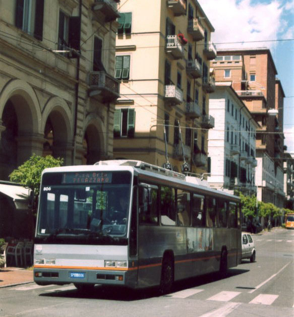 Trolley line 1 La Spezia (Path: Pegazzano - Park Palaspezia)